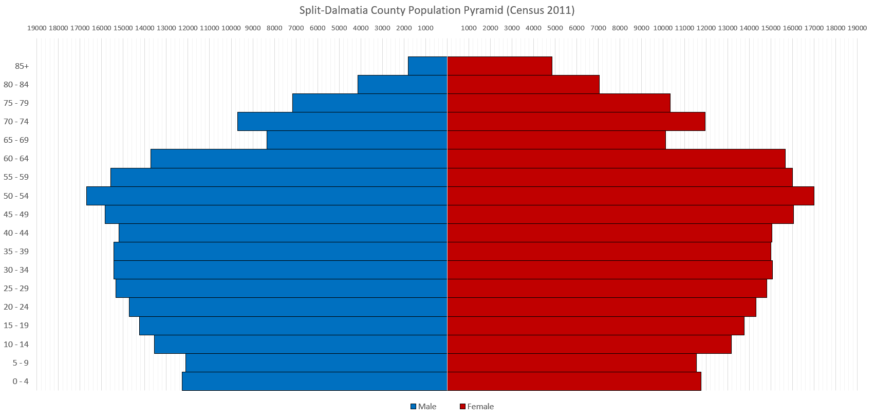 Population pyramid of Split-Dalmatia County. Version in English. Data from 2011 Census; available at